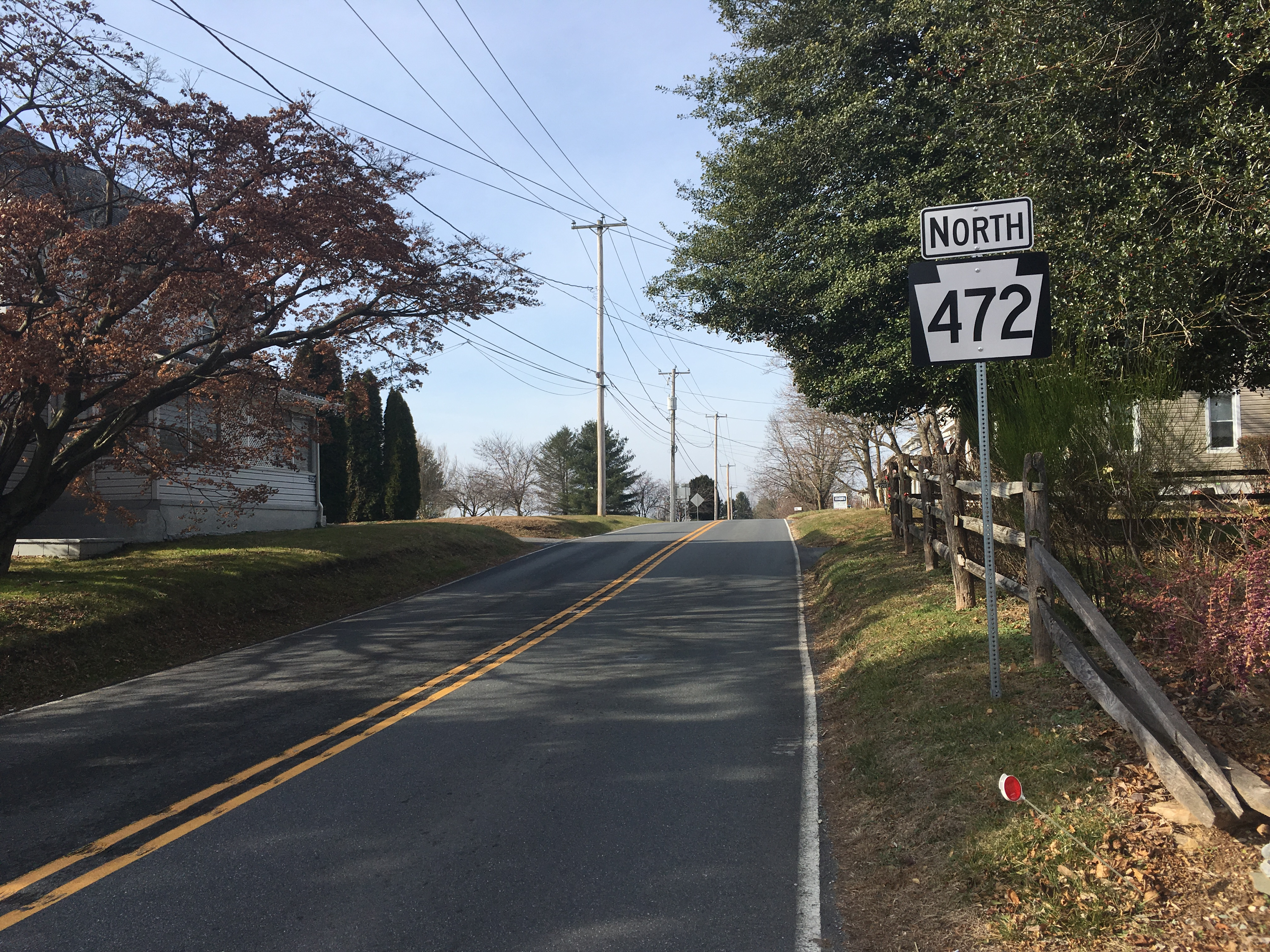 Northbound Pennsylvania Route 472 (Lewisville Road) past its southern terminus at Pennsylvania Route 841 (Chesterville Road) in Lewisville, Pennsylvania.